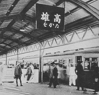 Takao(Kaohsiung) Station in Taiwan